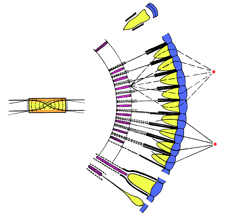 superposition eye graphic uwe kils gfdl I interpret this to mean created by Uwe Kils, and licenced as gfdl